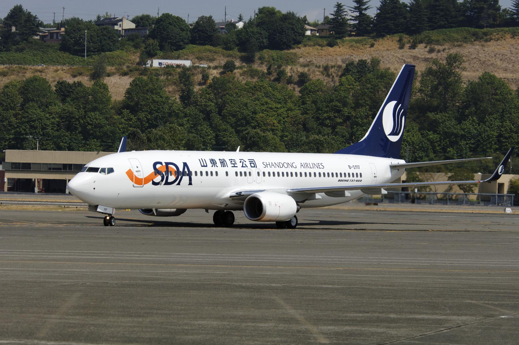 Shandong airlines yk513_1770 737_800 landing and taxi